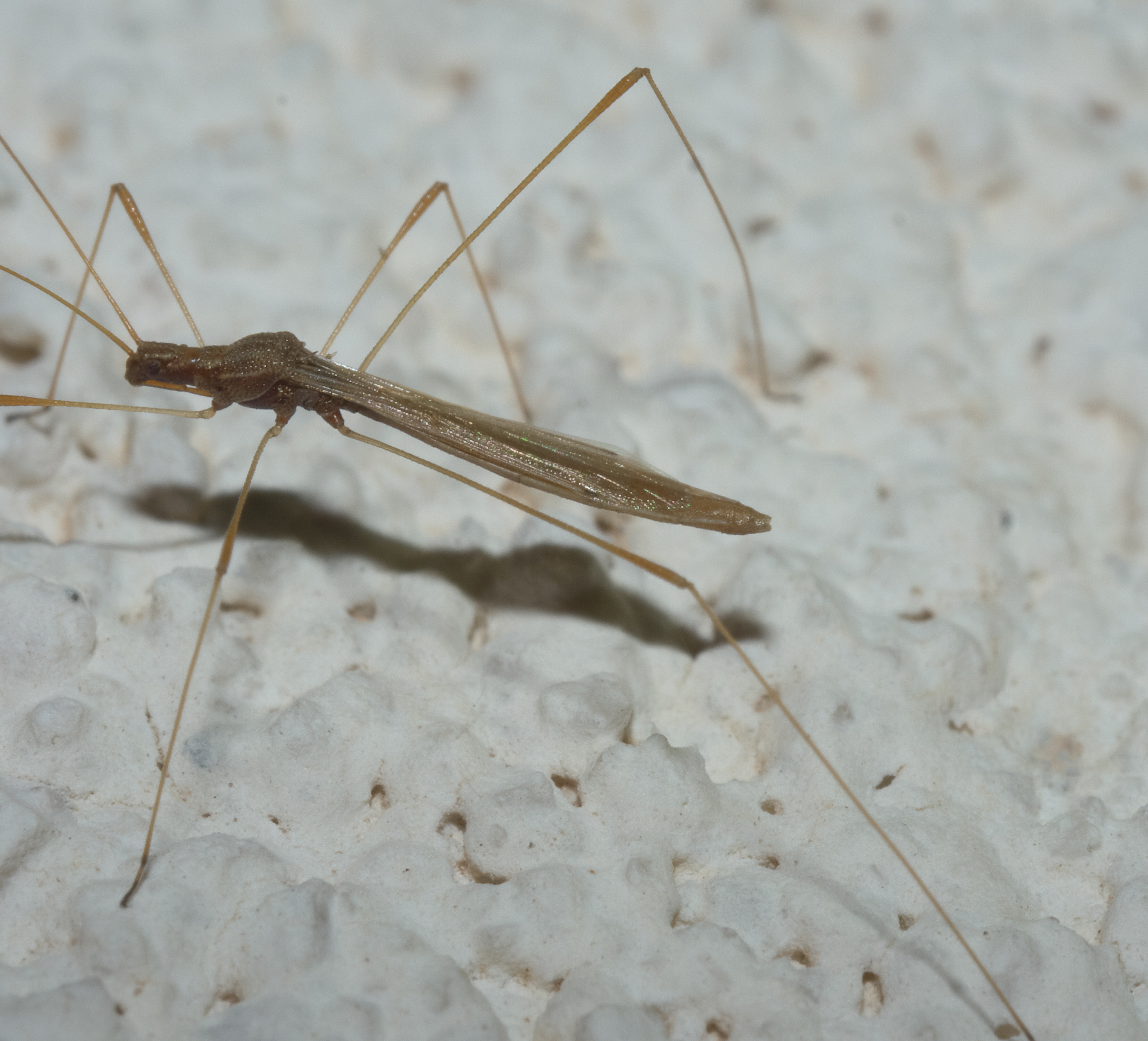 Jalysus wickhami, Spined Stilt Bug, Size: 7.6 mm, ID Confidence: 98